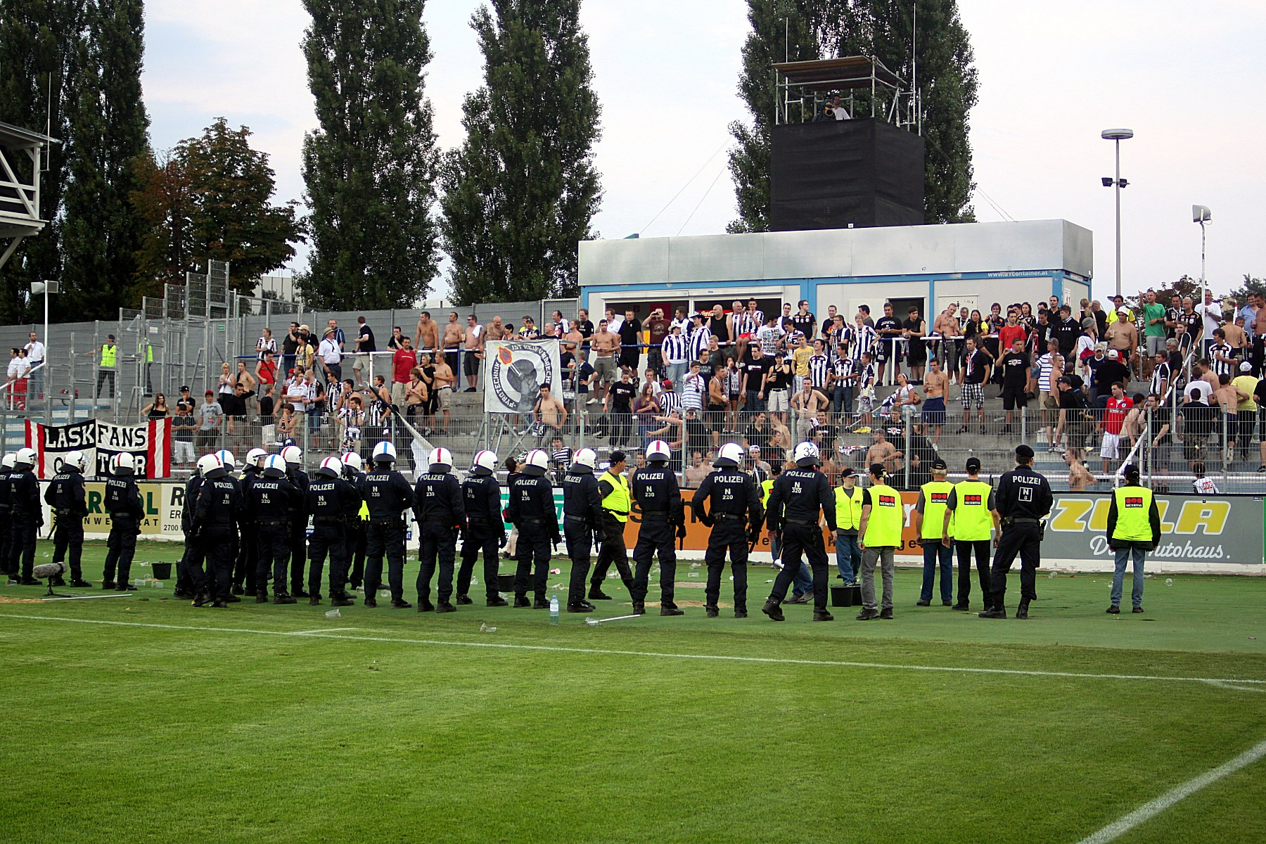 SC Wiener Neustadt vs LASK Linz 5:0 (5:0) – The foto shows „Fans“ of LASK Linz.